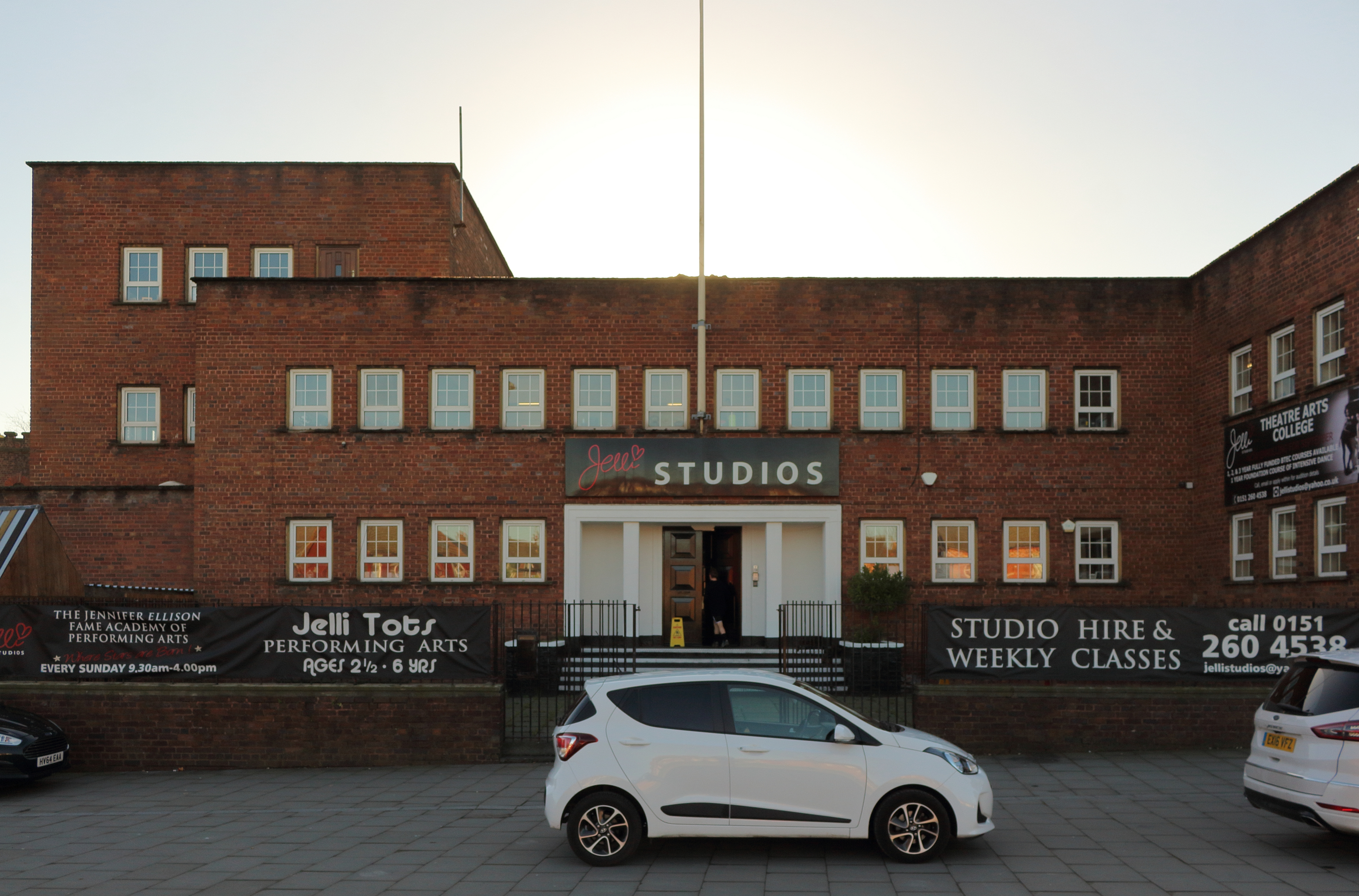 Performing arts school, the location of the second series of "Dance Mums with Jennifer Ellison" on Edge Lane next to the Botanic Park.